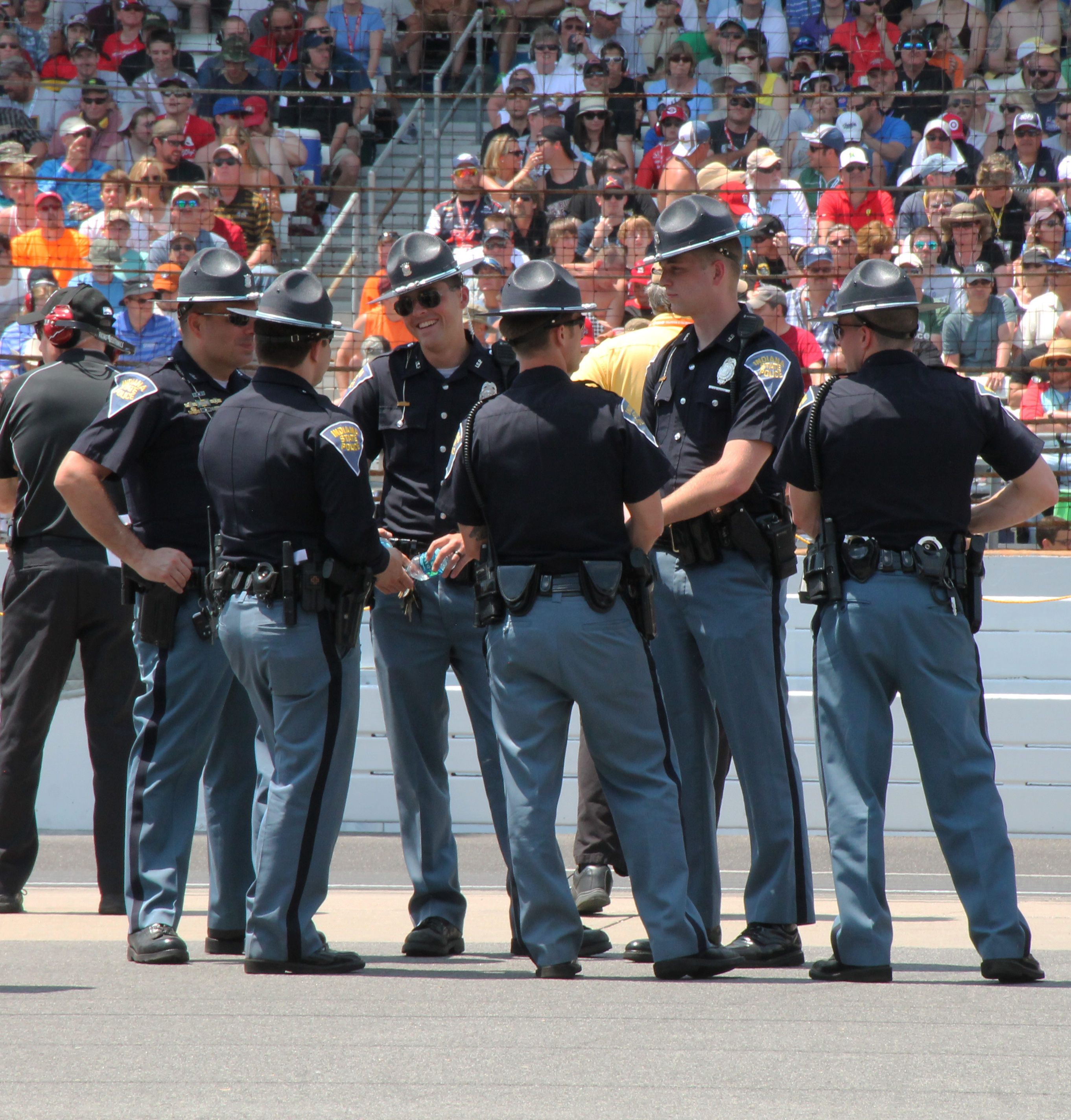 Indianapolis Metropolitan Please Department at the 2015 Indianapolis 500